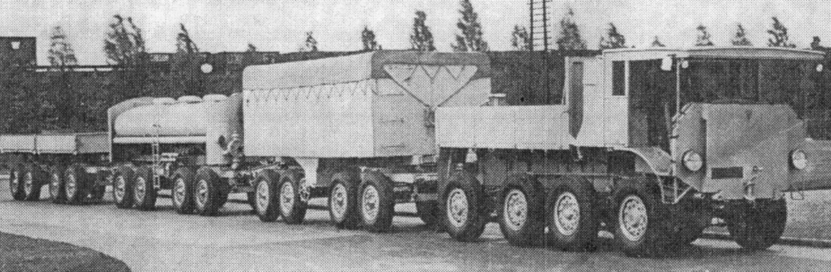 Overseas Roadtrain that went to Russia